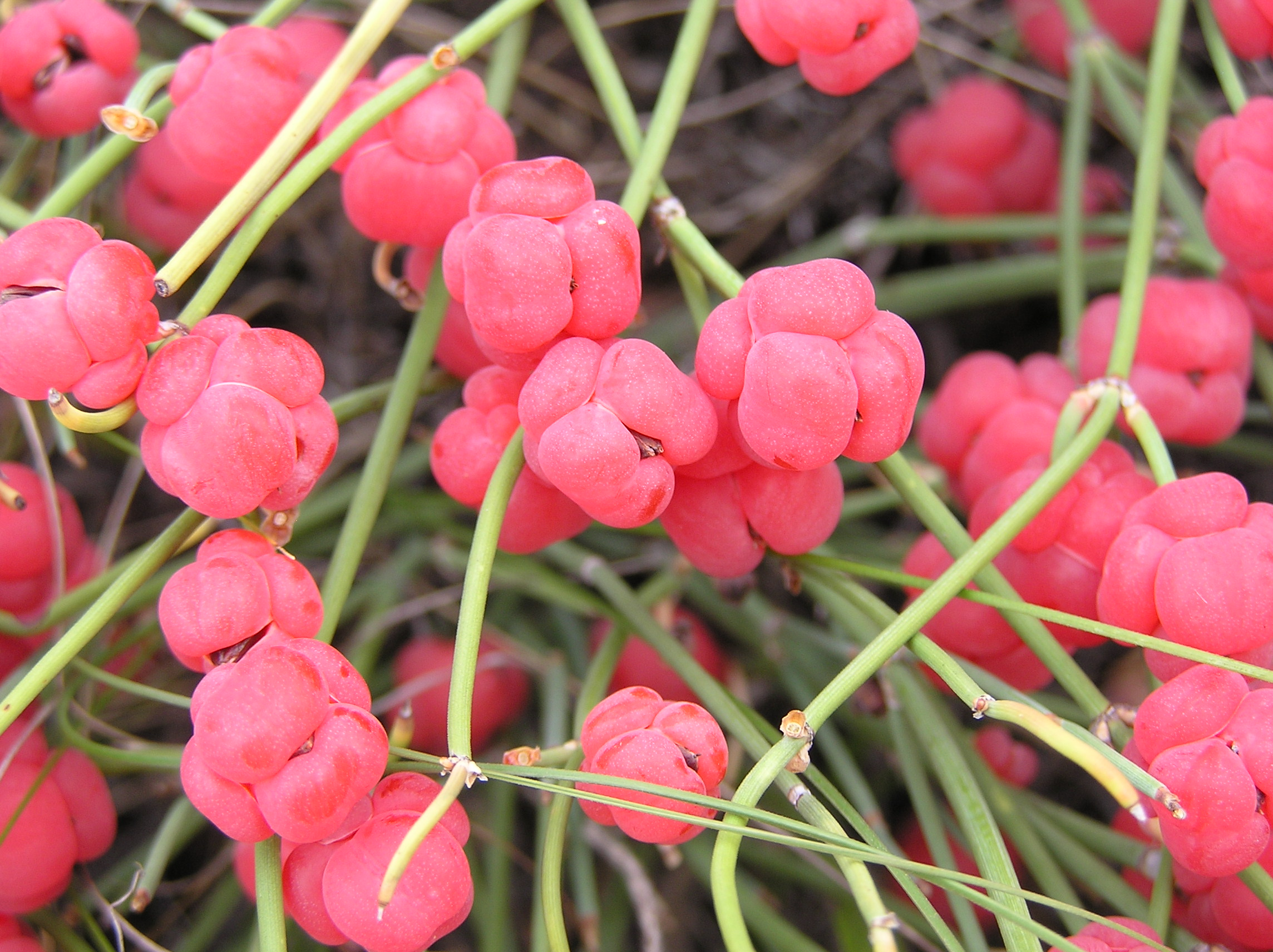 Ephedra distachya subsp. monostachya (L.) Riedl., female plant with ripe cones. Habitat: steppe on a slope. Vicinity of Saratov city, Russia.